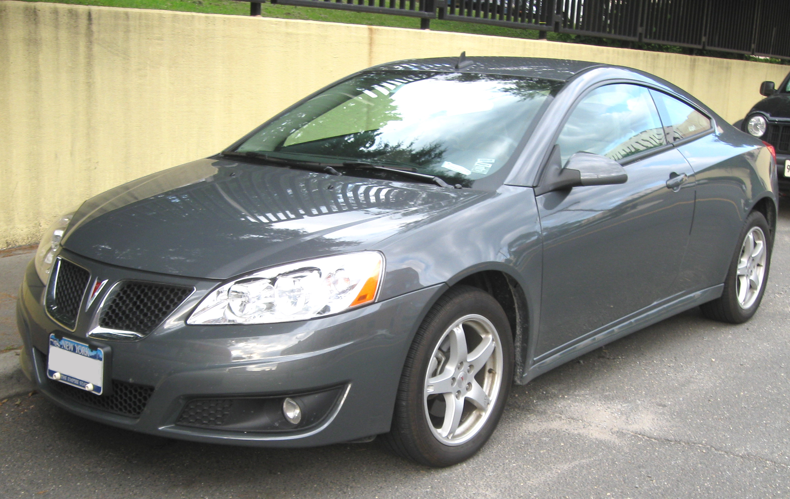 2009.5 Pontiac G6 photographed in Washington, D.C., USA.